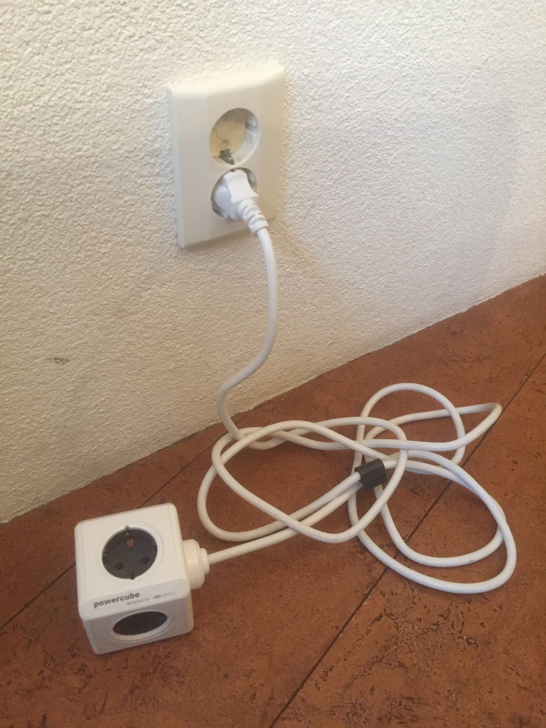 A power cord or distribution unit